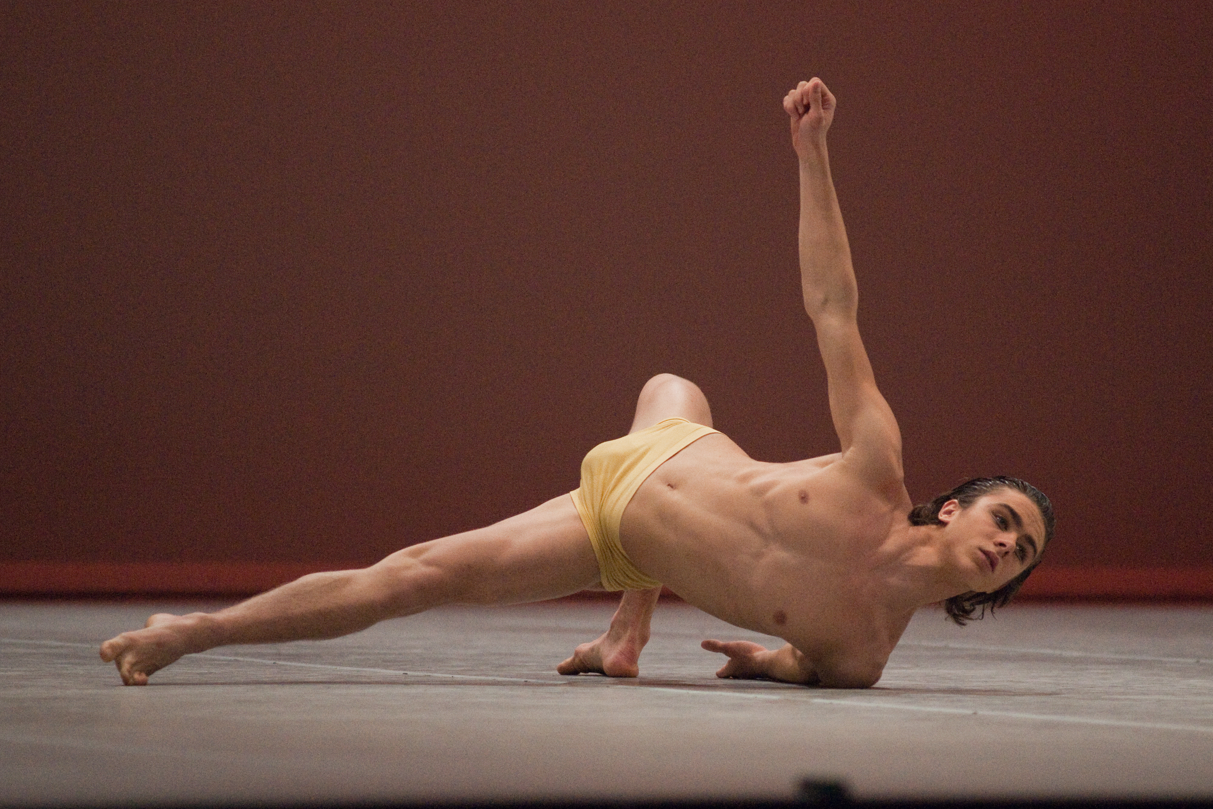 The making of this document was supported by Wikimedia CH. (Submit your project!) For all the files concerned, please see the category Supported by Wikimedia CH.